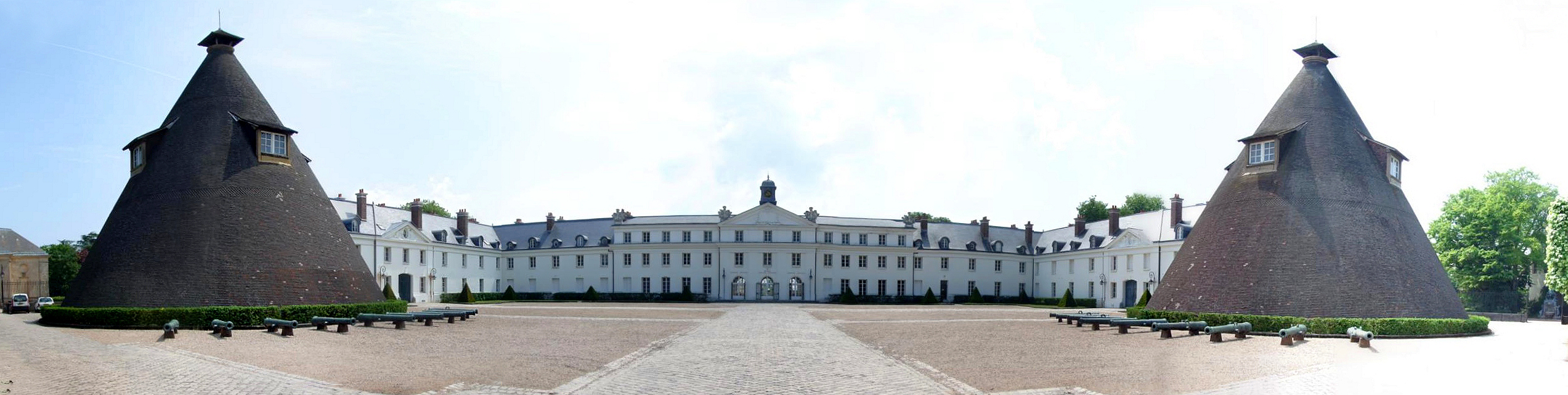 Le Creusot, Burgundy, FRANCE